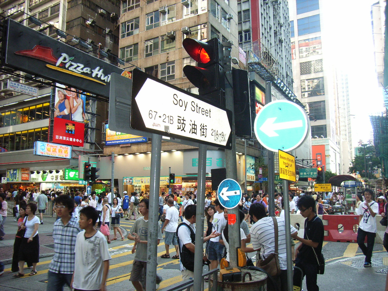 Soy Street, Kowloon Photo by TonySKTO